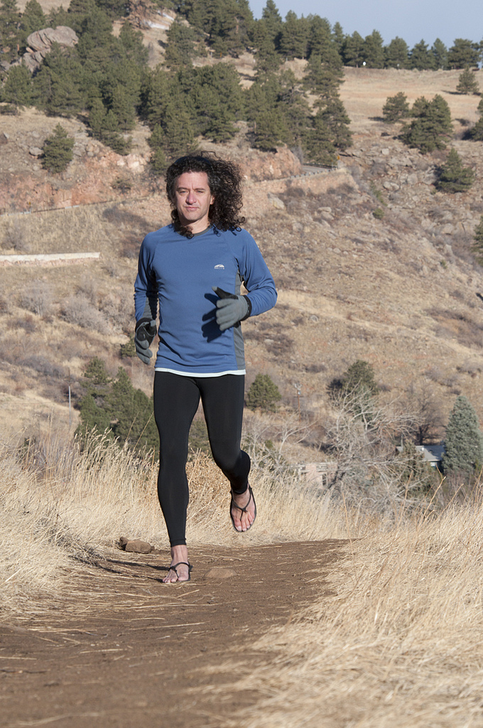 This is a photo of a friend running in sandals.